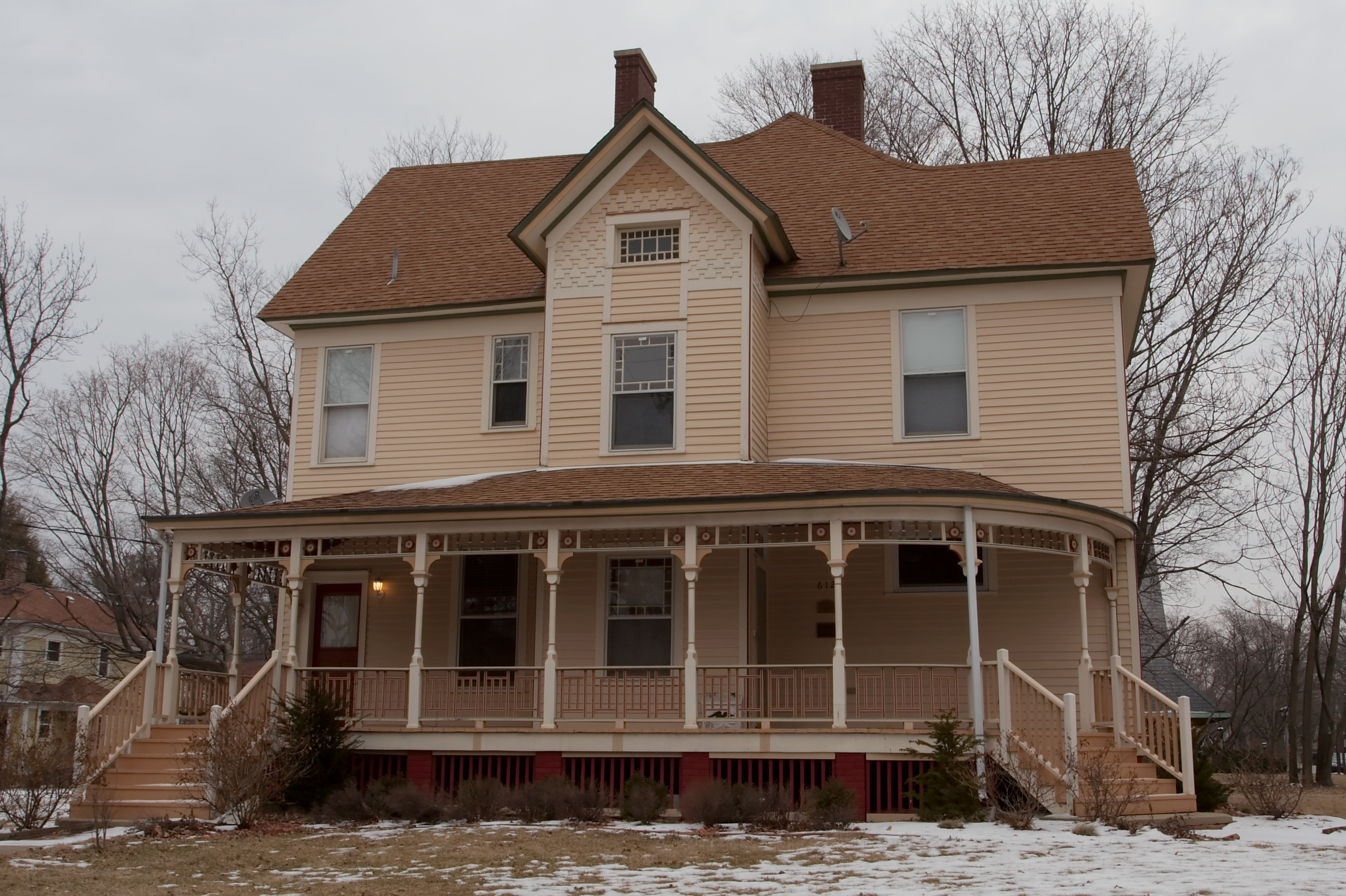 Urbana, IL Ricker, Nathan C., House (added 2000 - Building - #00000682) 612 W. Green St., Urbana Historic Significance: Person Historic Person: Ricker, Nathan C. Significant Year: 1892 Area of Significance: Architecture, Education Period of Significance: 1875-1899, 1900-1924 Owner: Private Historic Function: Domestic Historic Sub-function: Single Dwelling Current Function: Work In Progress